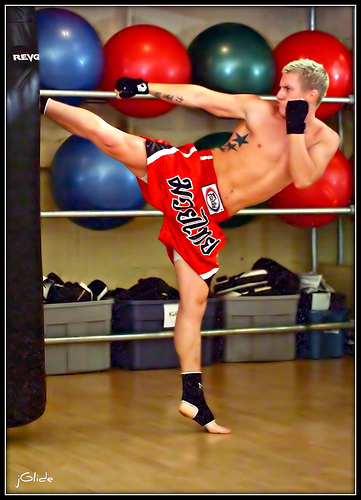 Michael Hobson-Personal Trainer, Group Exercise Instructor performing High Kick.